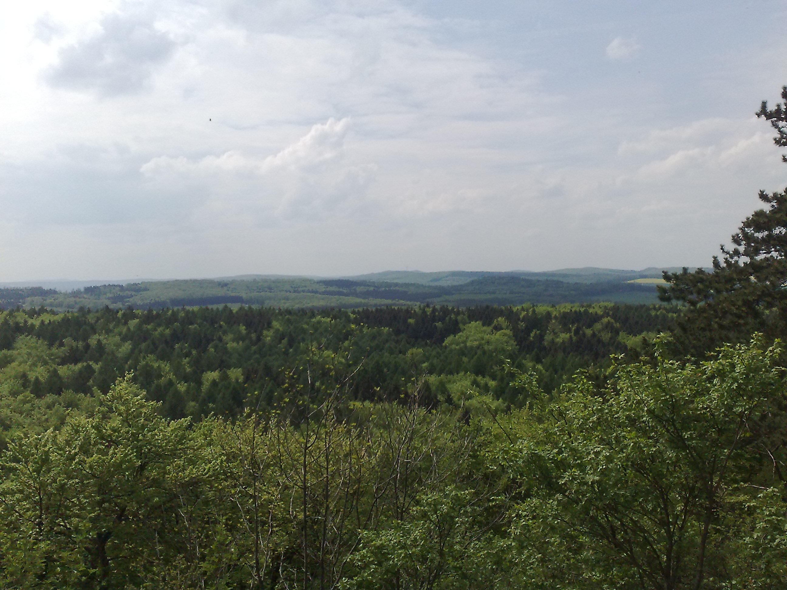 View from the mountain Nördlicher Jägerturmskopf to the west; Heere, Lower Saxony, Germany.